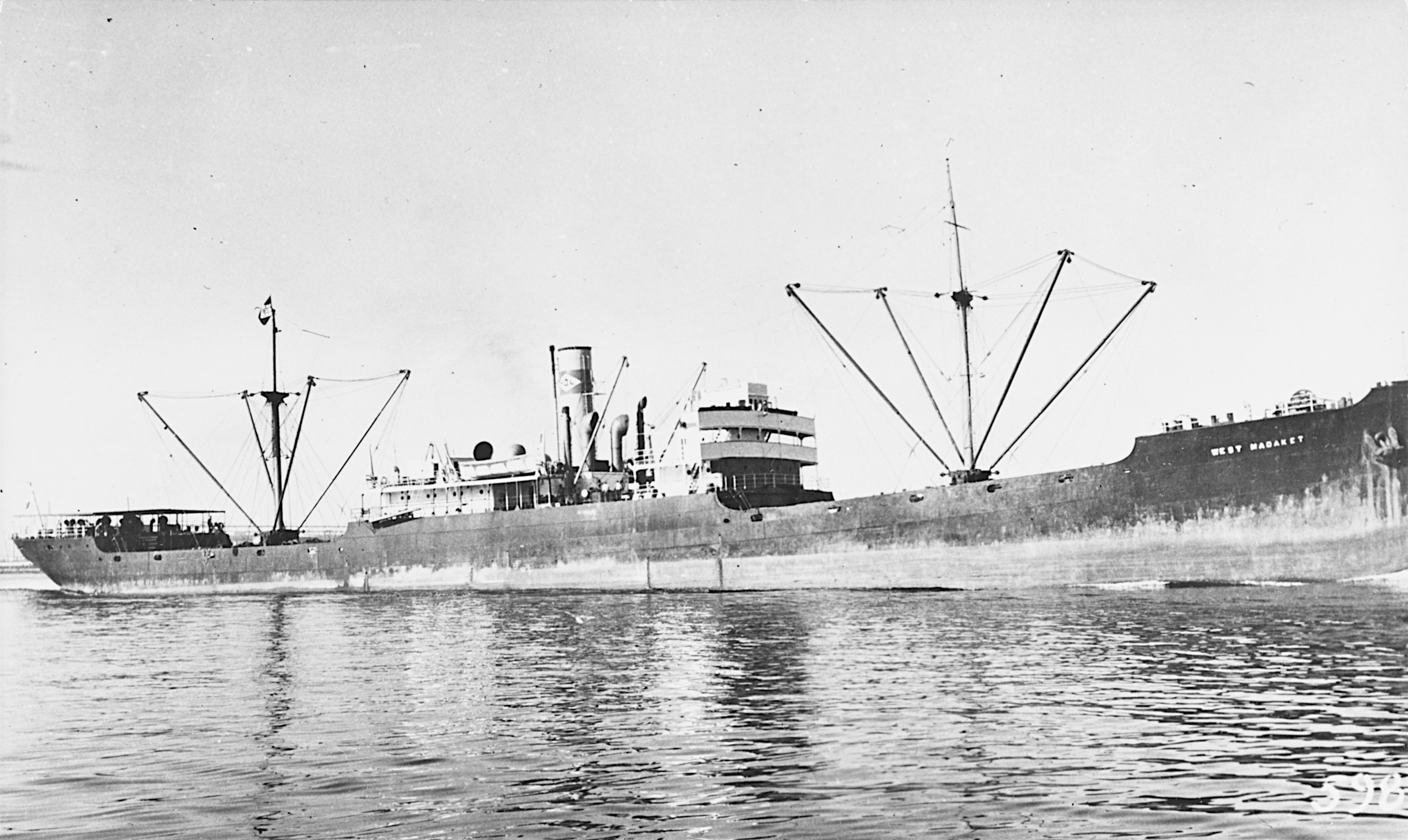 SS West Madaket post-World War I. This ship was USS West Madaket (ID-3636) during the war. The original photograph is from the Steamship Historical Society, Collection of John Lyman. Donation of Dr. Mark Kulikowski, 2010. U.S. Naval History and Heritage Command Photograph.